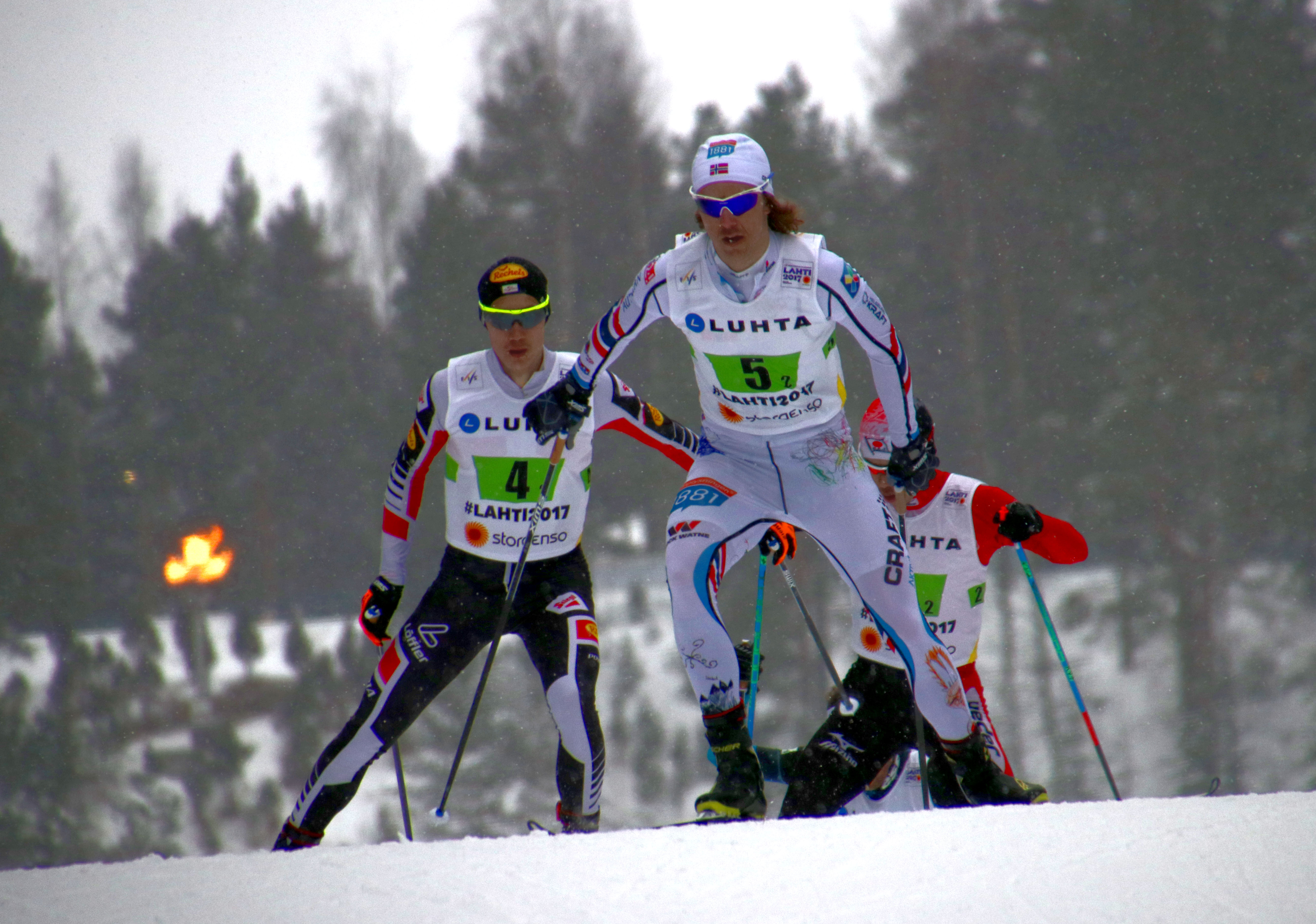 Lahti. At the Nordic Combined World Championships.